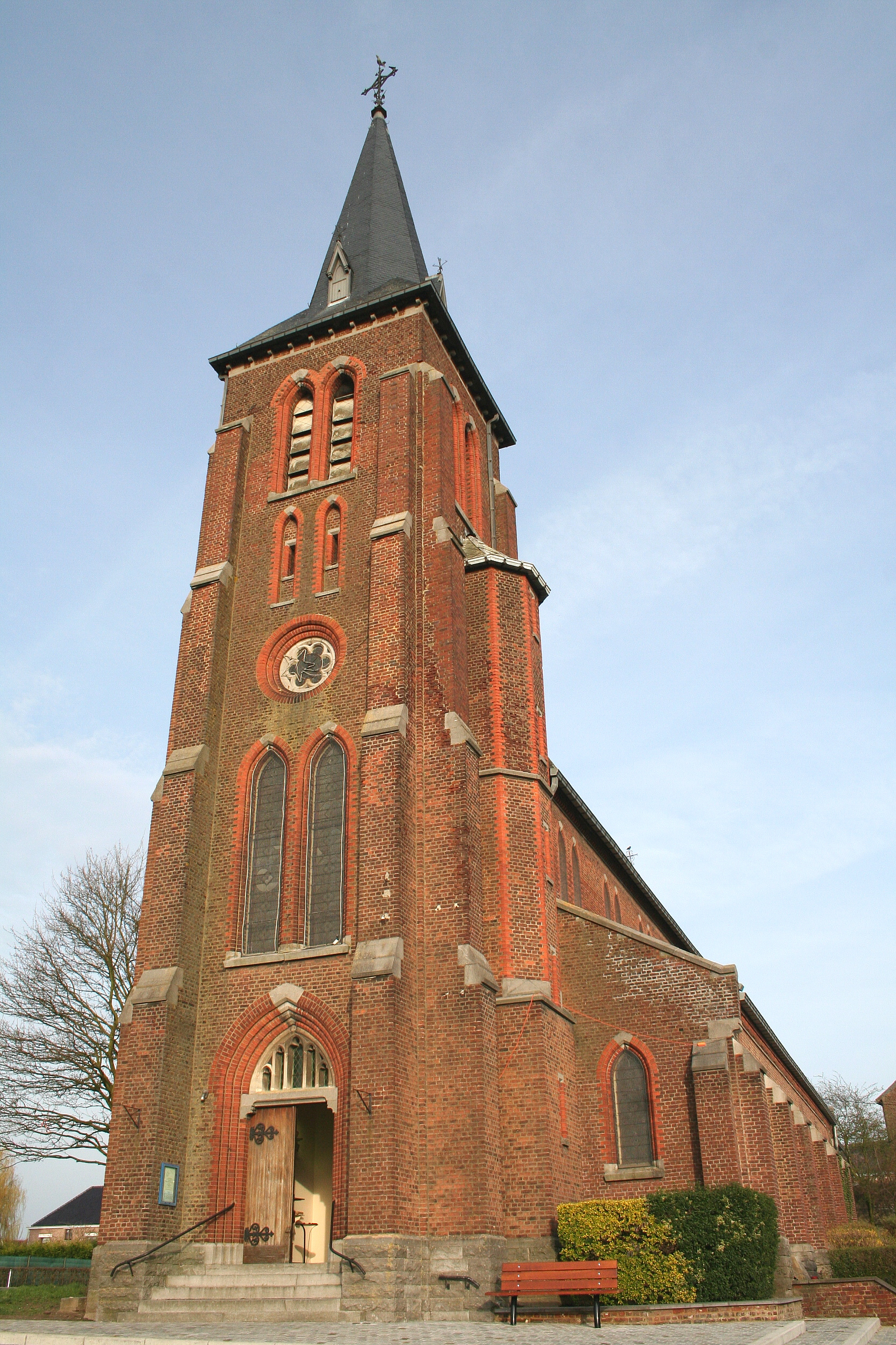 Ghislenghien (Belgium), the John the Apostle church (1906).